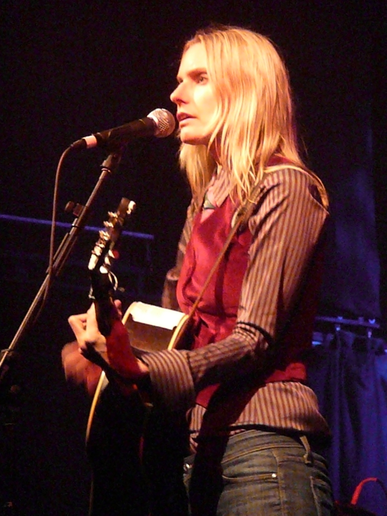 Aimee Mann at Manchester Academy, 2008